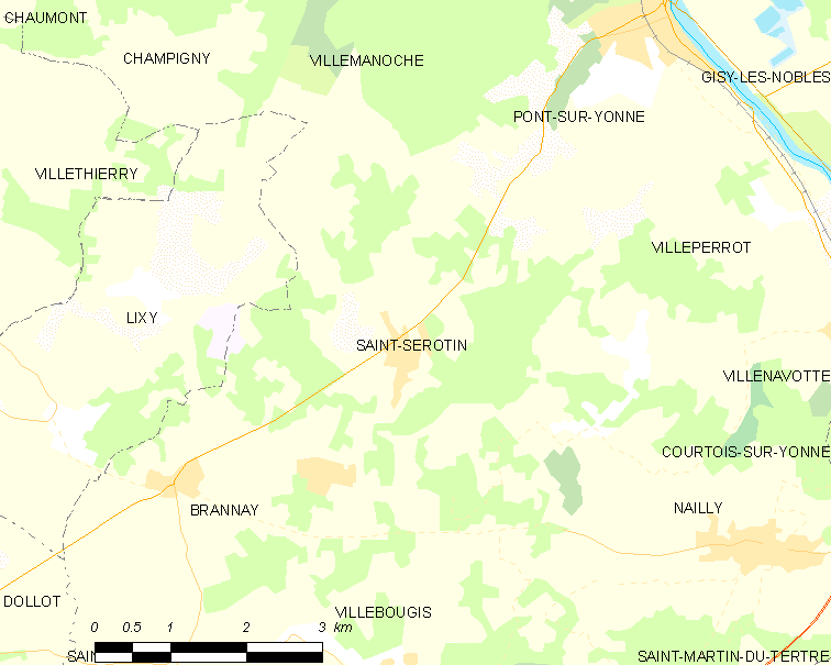 Map of French municipality Saint-Sérotin